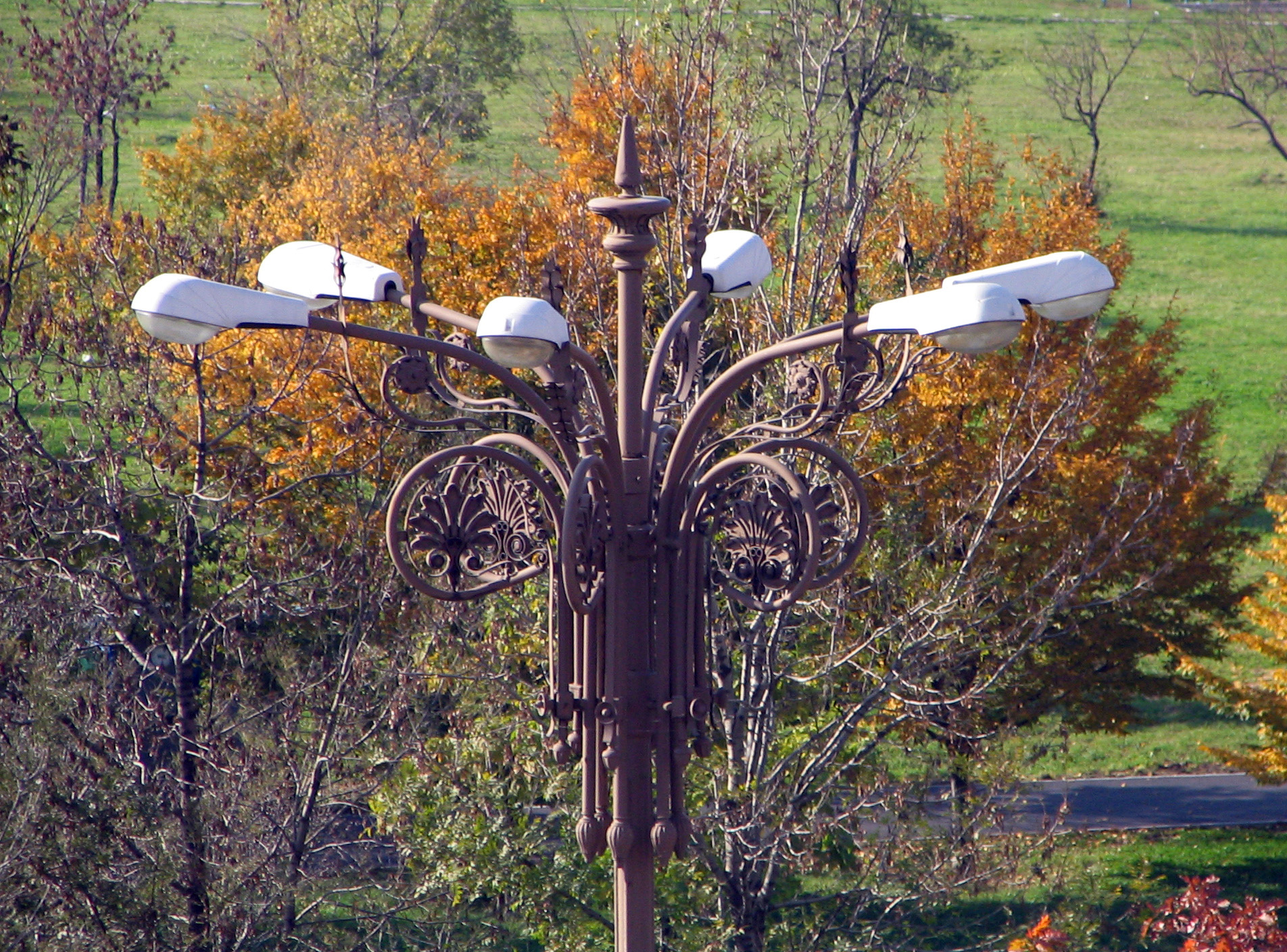 A lamp post with six lamps FaelLuce Mira, Bucharest, Romania, in Izvor area, near the Palace of the Parliament